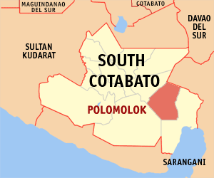 Map of the South Cotabato showing the location of Polomolok